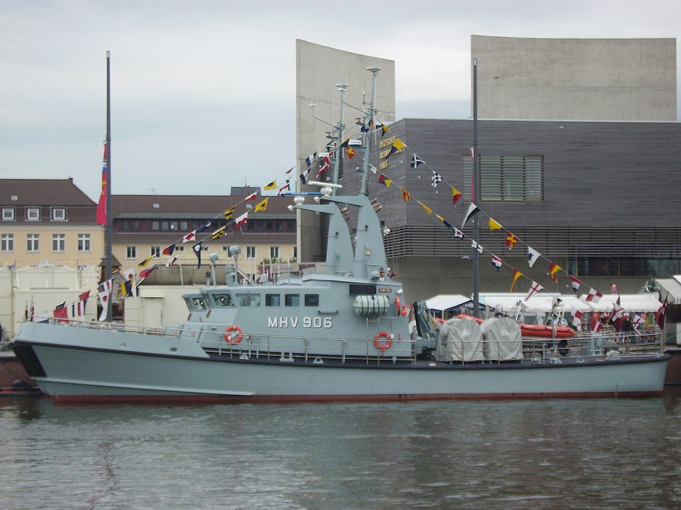 The Danish home guard vessel MHV 906 during a visit to Bremerhaven, Germany. Another vessel is behind this ship.